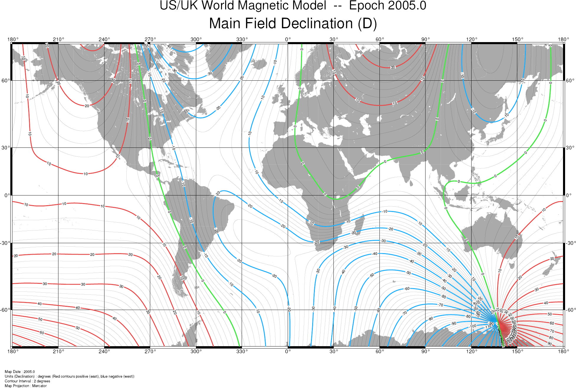 Earth magnetic field declination